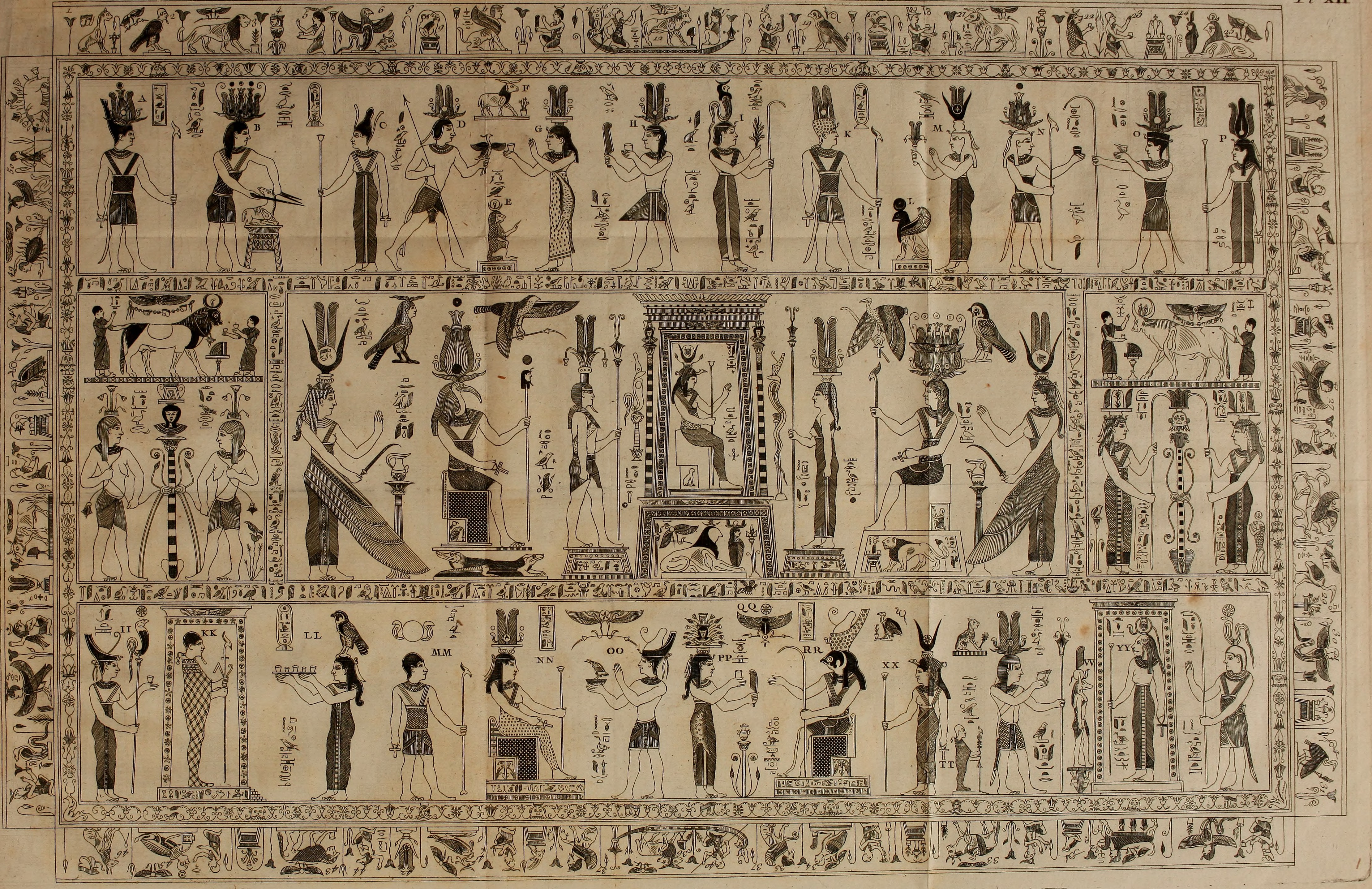 Title: Recueil d'antiquités égyptiennes, étrusques, greques et romaines Year: 1752 (1750s) Authors: Caylus, Anne Claude Philippe, comte de, 1692-1765 Subjects: Archaeology Publisher: Paris : Desaint & Saillant Text Appearing Before Image: tl/yy/y/w// li xn Text Appearing After Image: '